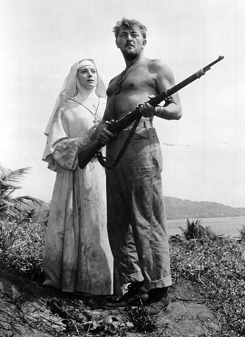 Photo of Robert Mitchum and Deborah Kerr from the 1957 film Heaven Knows, Mr. Allison.